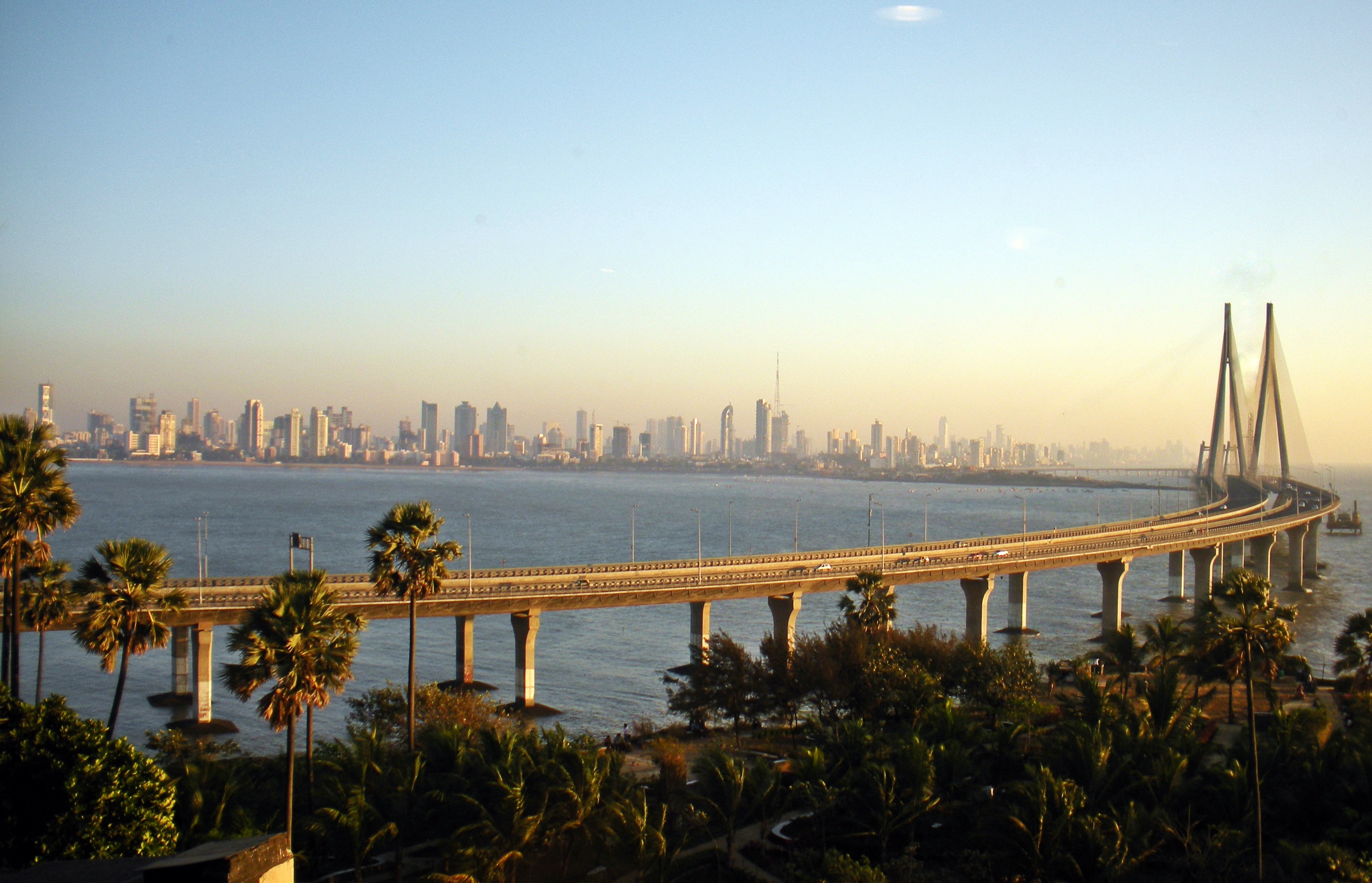 Worli Skyline(Mumbai) with Bandra Worli Sea Link View